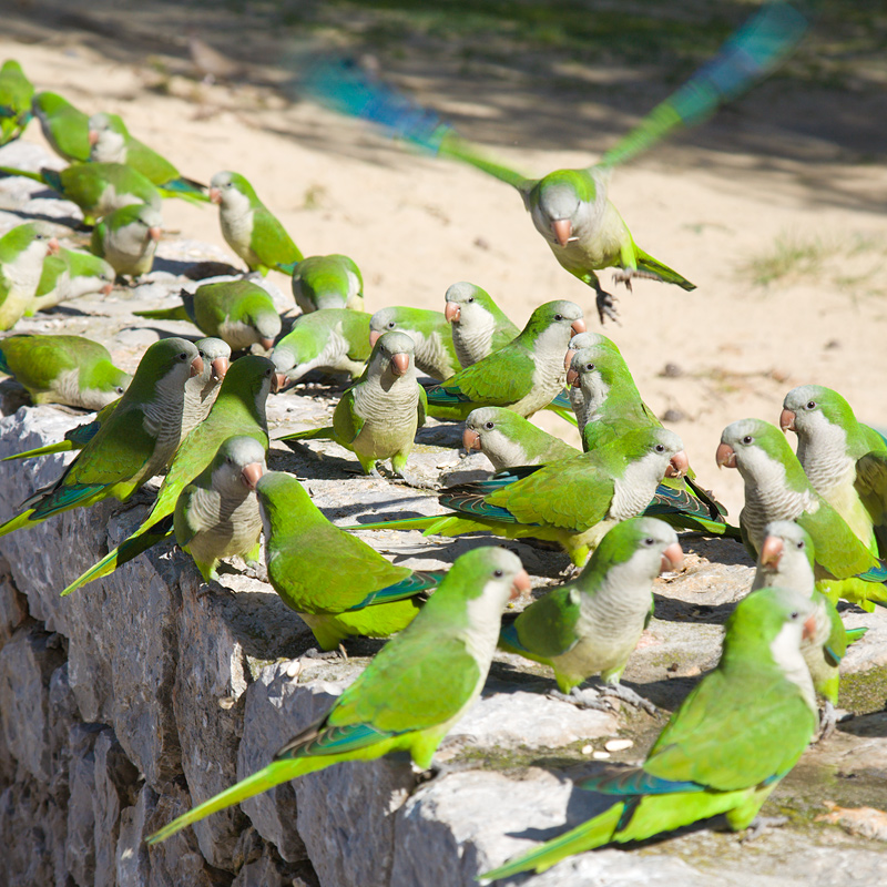 Monk Parakeets (Myiopsitta monachus) at Santa Ponsa, Majorca